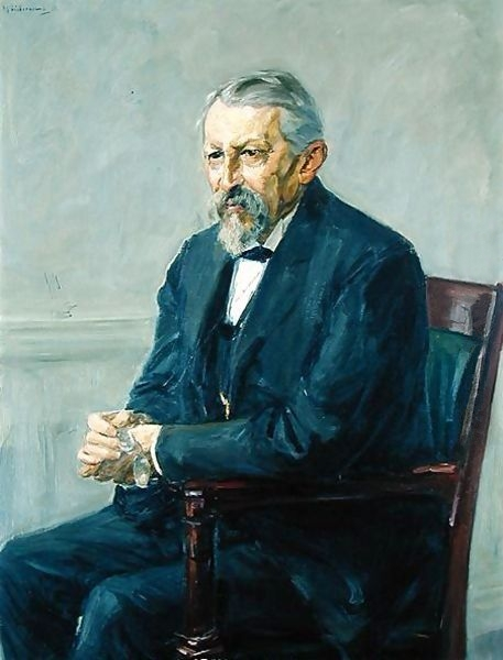 Portrait of zoologist Hermann Strebel